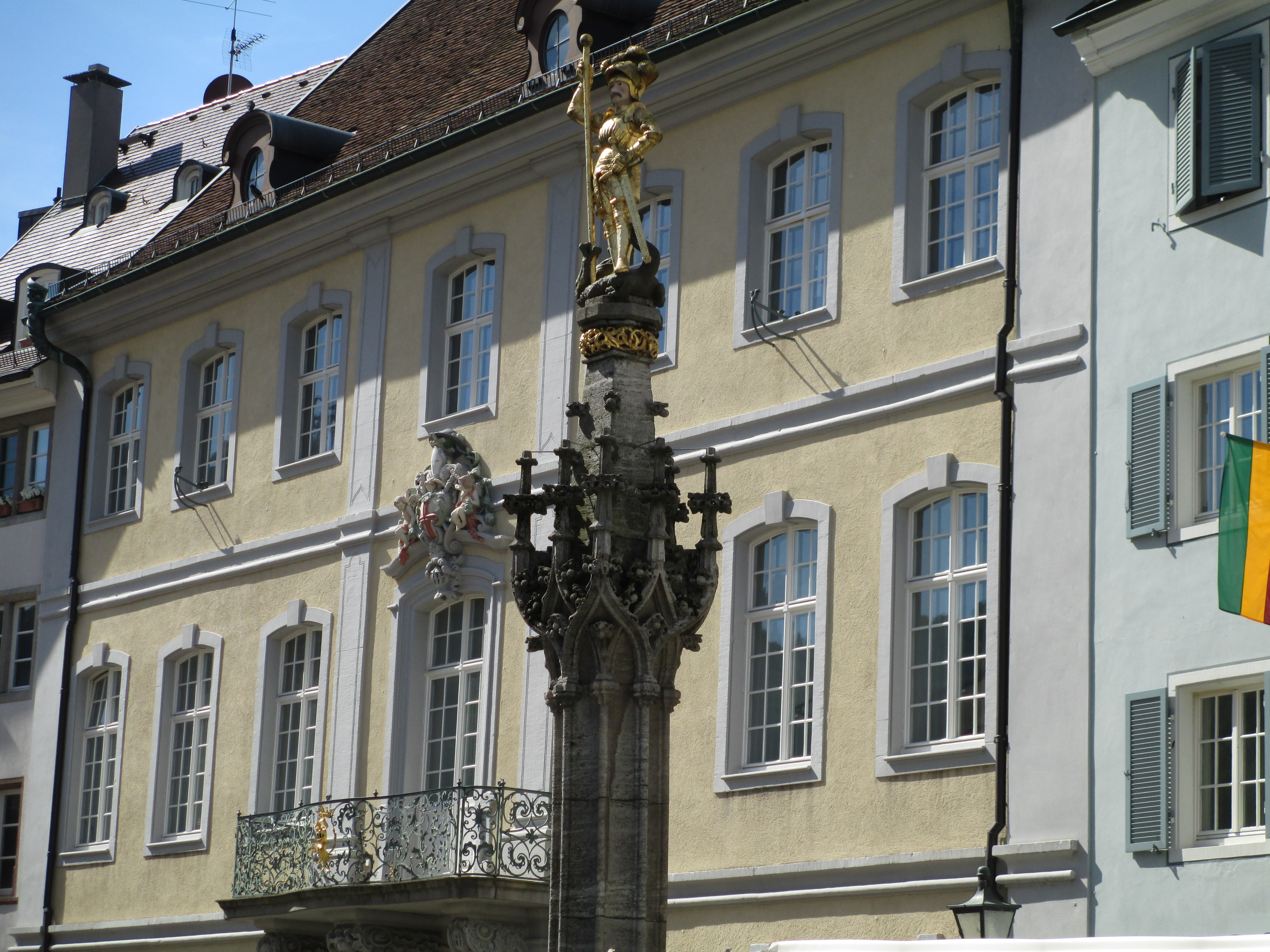 St. Georgbrunnen - Freiburg